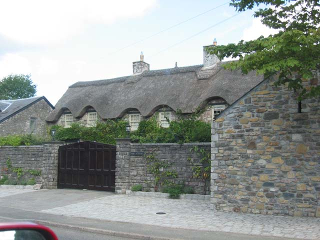 Thatched Cottage. In the village of St Nicholas, Pembrokeshire.